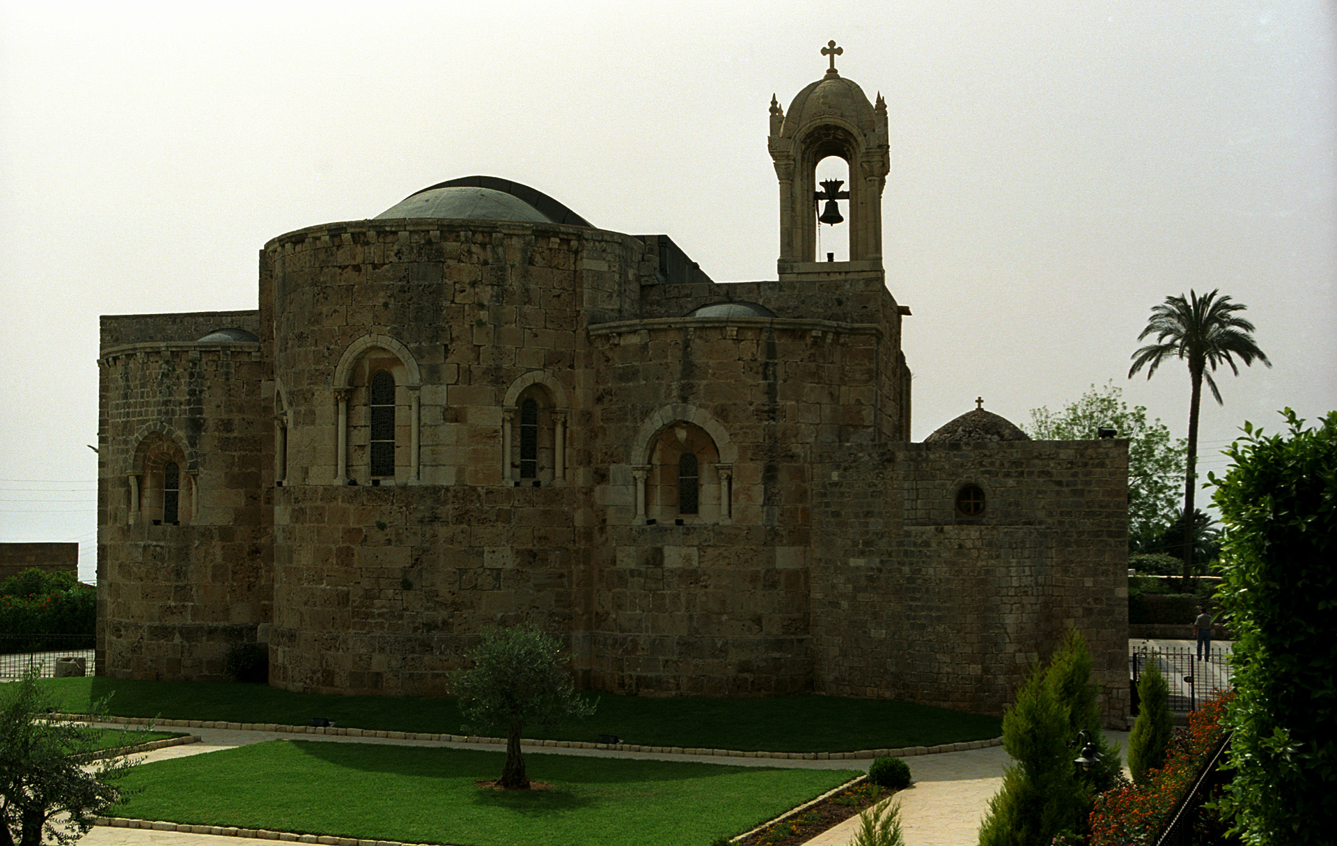 Byblos St. John the Baptist Church, stained glass windows from Gabriel Loire (see Charles W. Pratt/Joan C. Pratt: Gabriel Loire. Les Vitraux/Stained Glass, Centre International de Vitrail, Chartres 1996, ISBN 2-90807704-3, p. 138-139